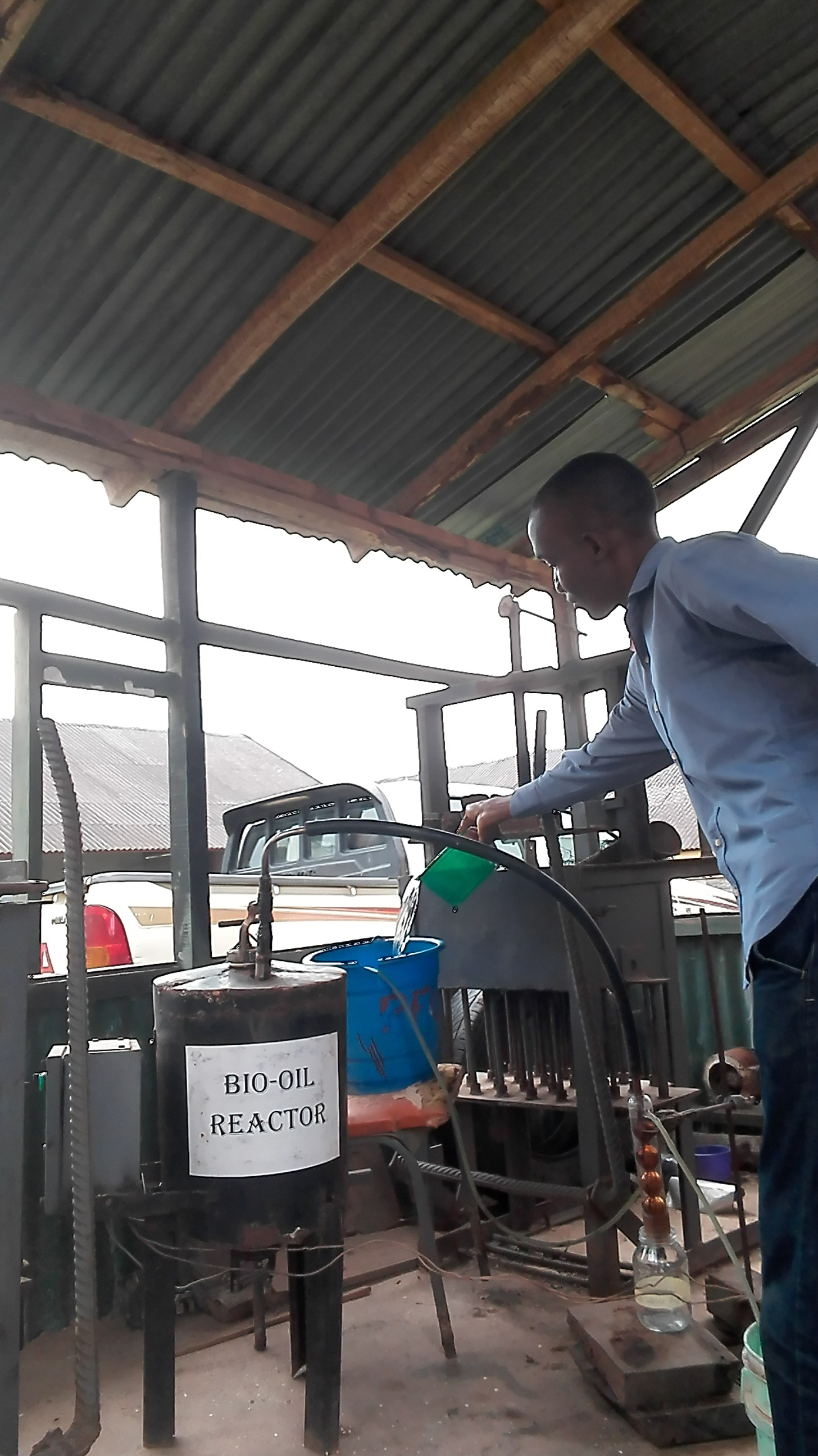 Energy Sustainability This is an image of "African people at work" from Nigeria